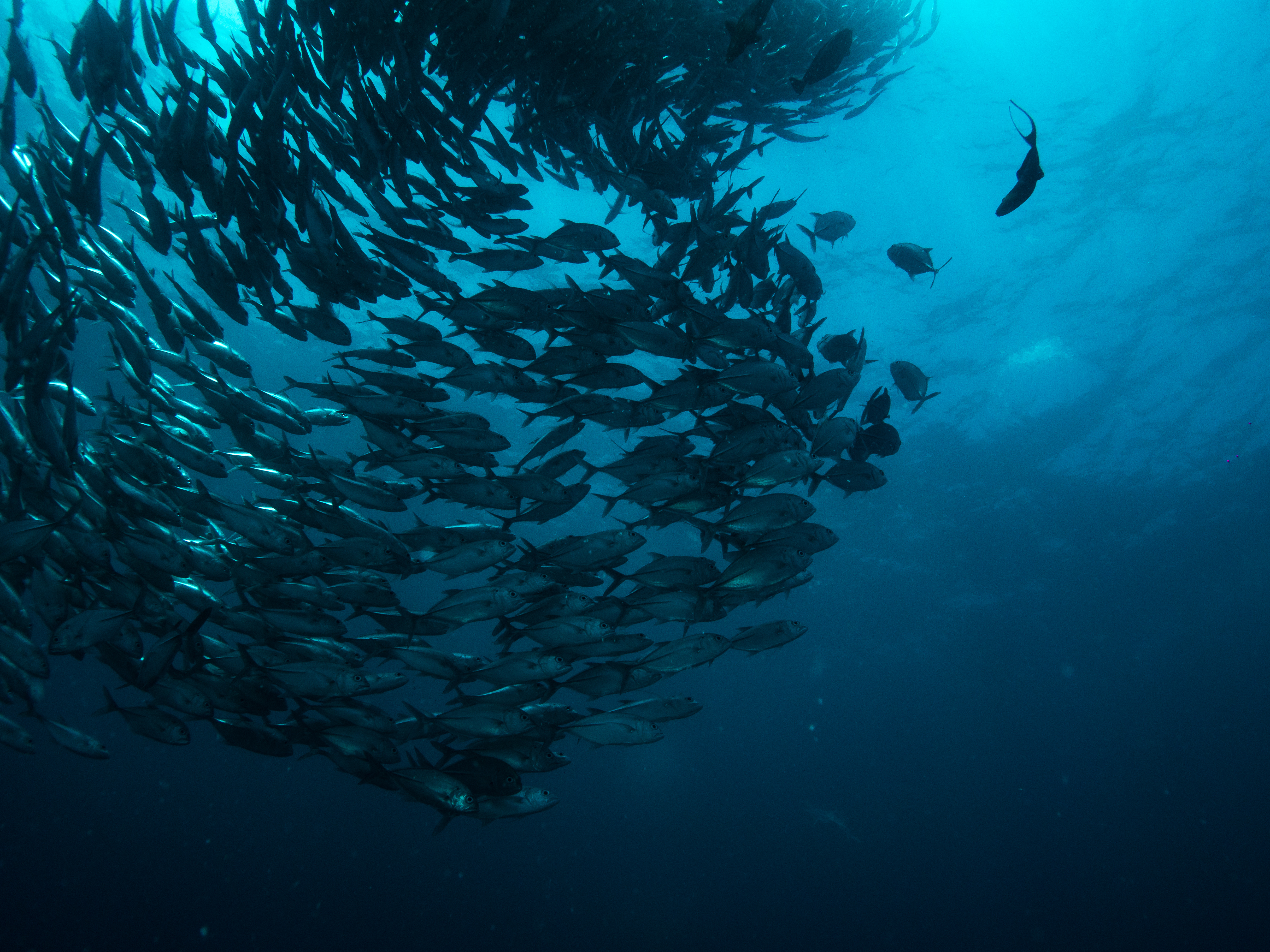 Schooling is a behaviour that fish use for socialization, protection and to find a mate. Pictured is black jack. f7 1/640 Sony RX100 M2